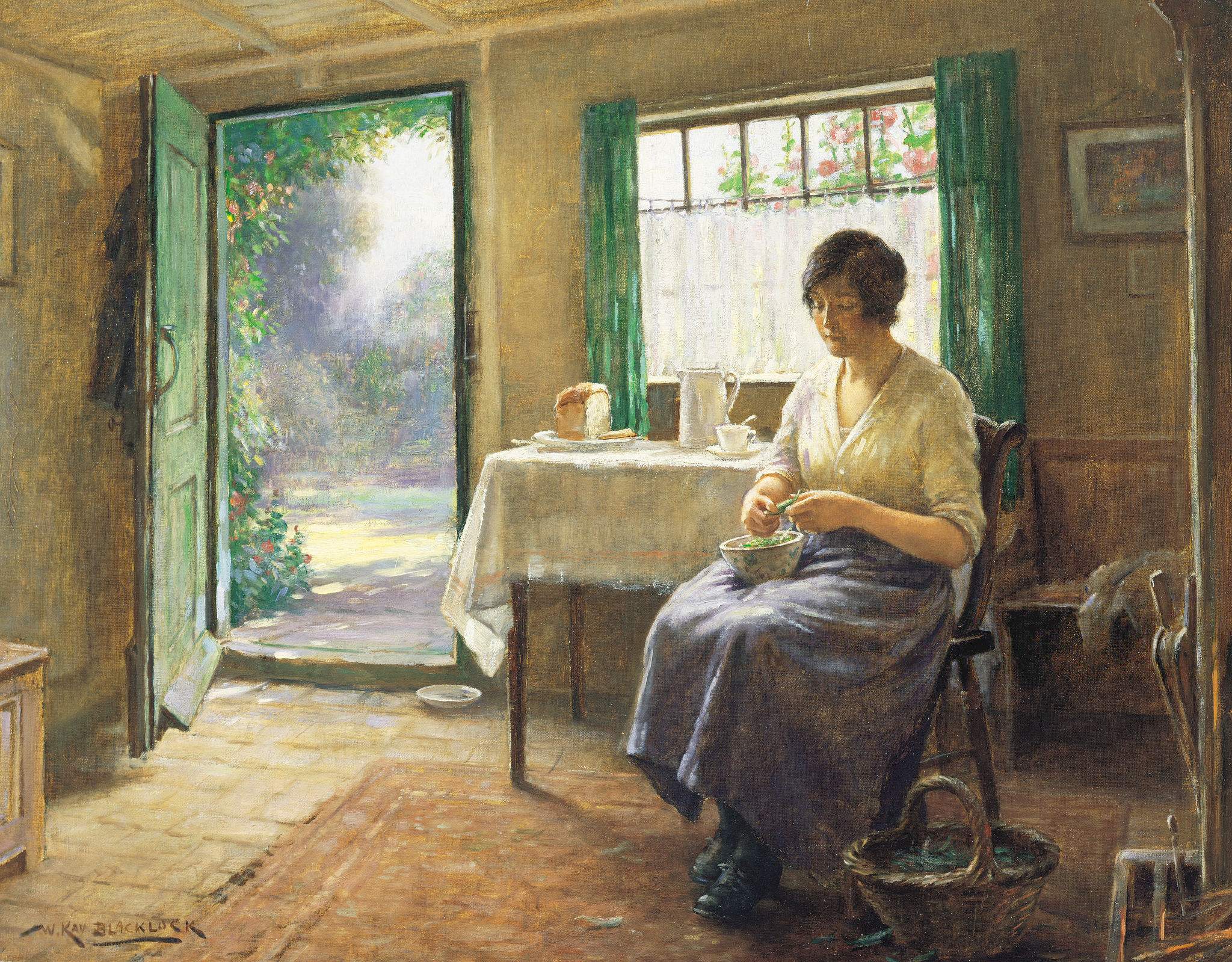 Lunchtime Preparations